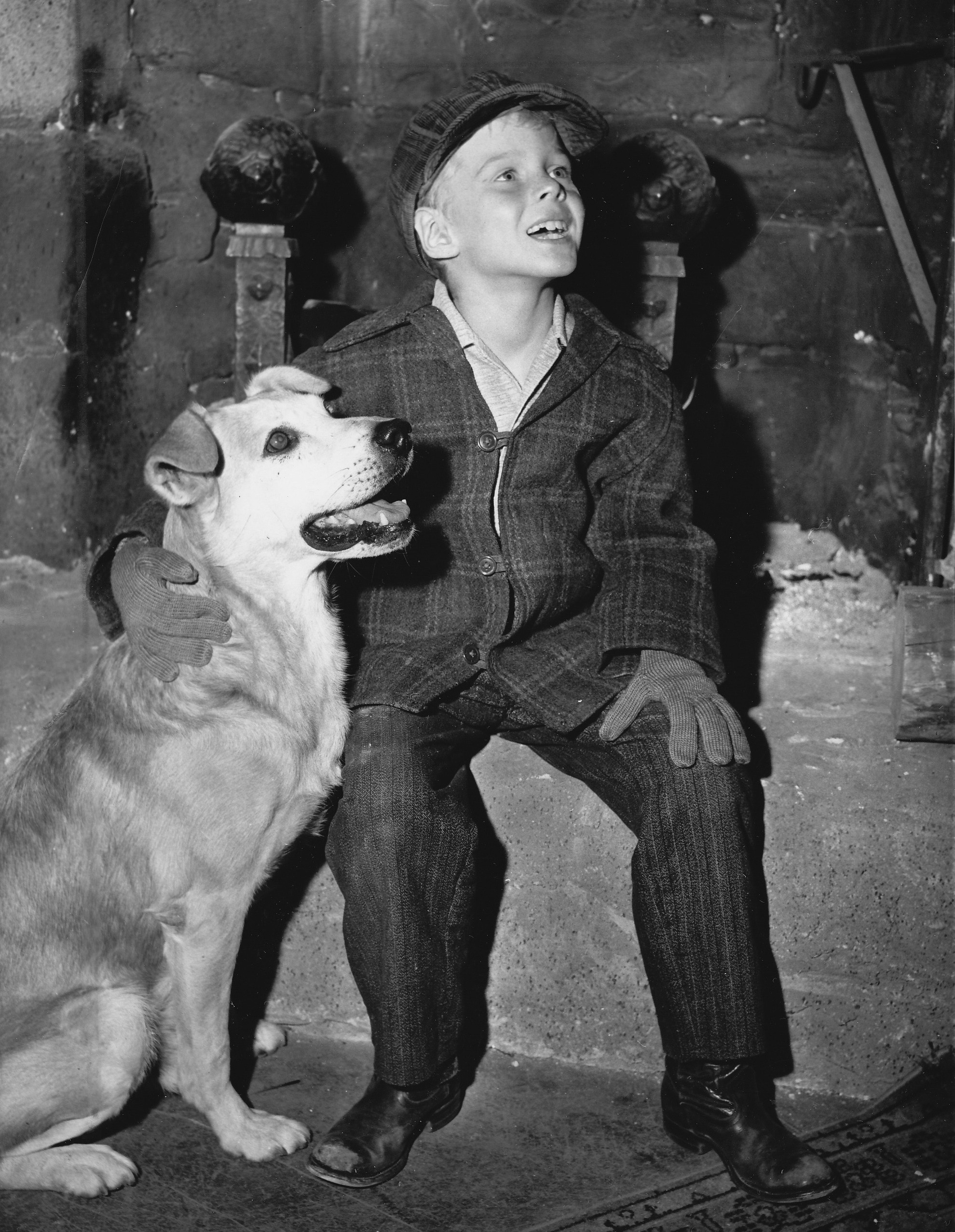 Publicity photo of child actor Jay North promoting his guest-starring role on the CBS television series Wanted: Dead or Alive episode entitled "Eight Cent Reward".